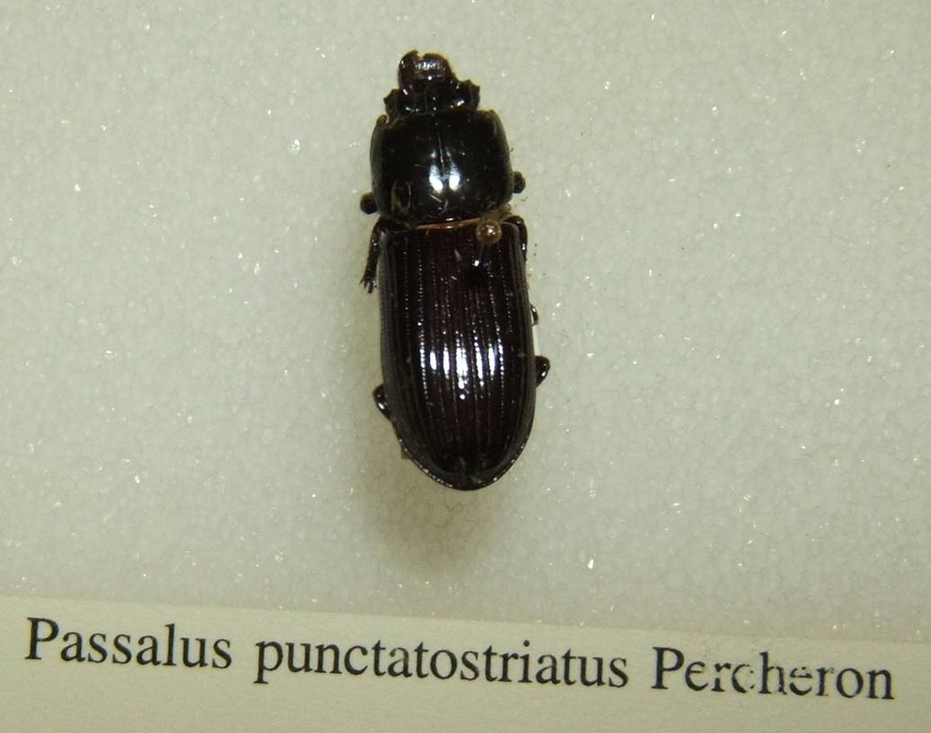 Passalus punctatostriatus adult taken by Shawn Hanrahan at the Texas A&M University Insect Collection in College Station, Texas.